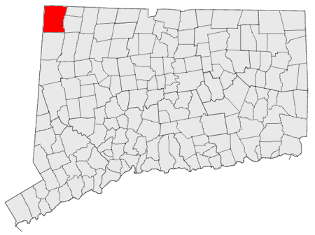 Locator map for Salisbury, Connecticut